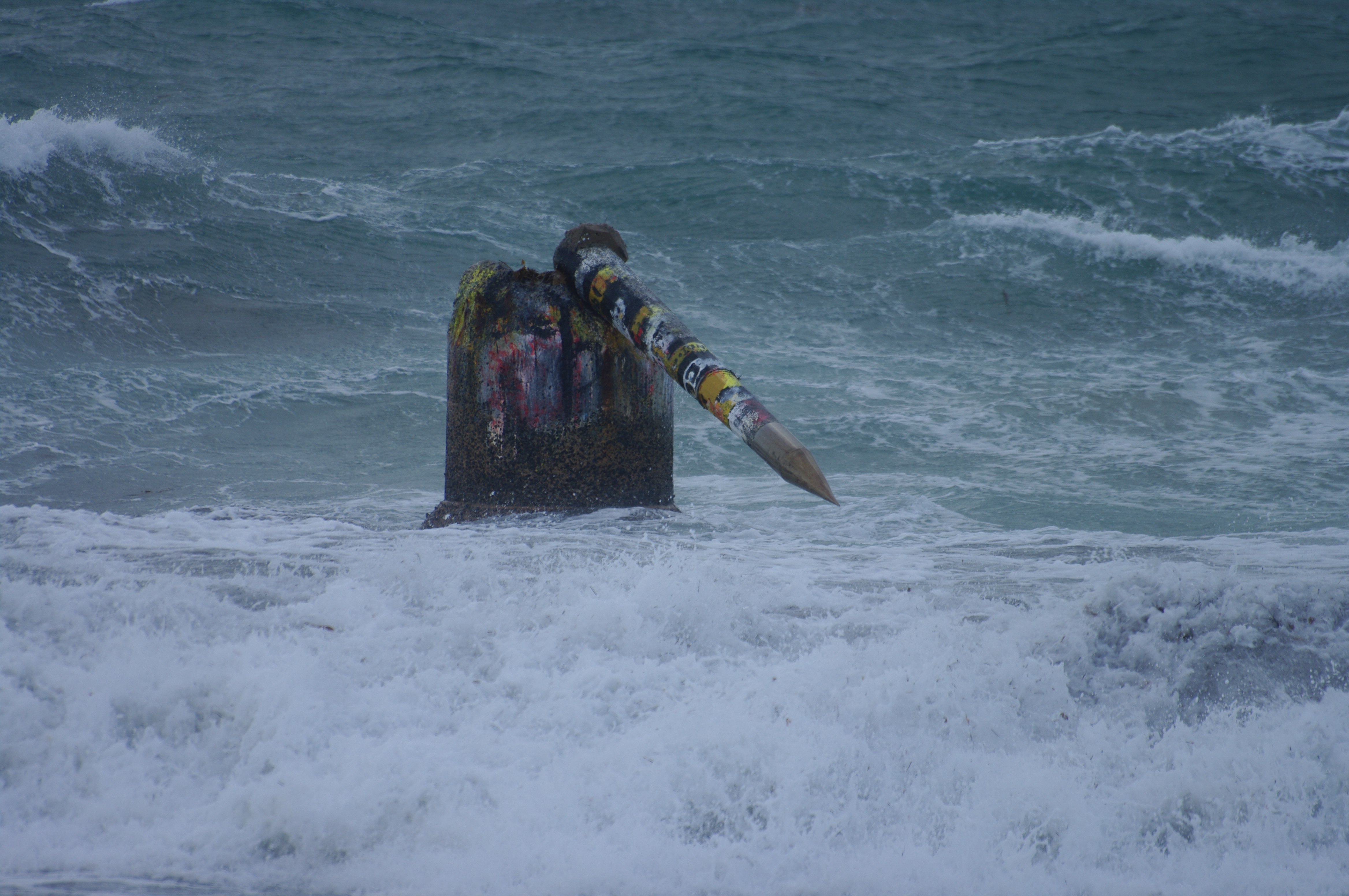 Cottesloe Pylon after storm of 21/22 May damaged it. Originally three pylons were built as per of a shark net in 1930's the other two pylons where destroyed by a storm in 1937